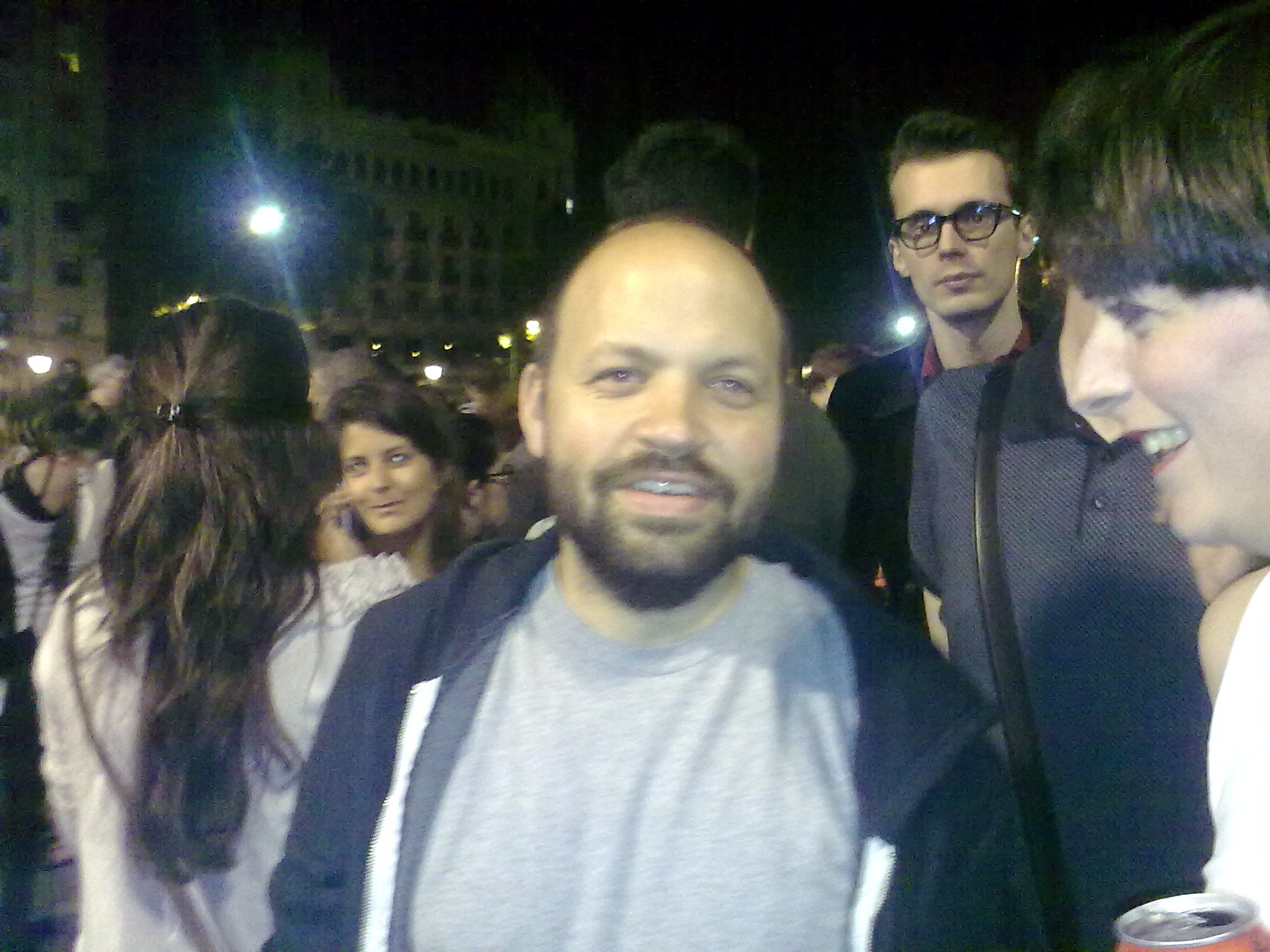 Miguel Noguera at Plaça Catalunya,on friday may 20th 2011, during Spanish Revolution citizen protests against spanish false democracy and its corrupted politic class.